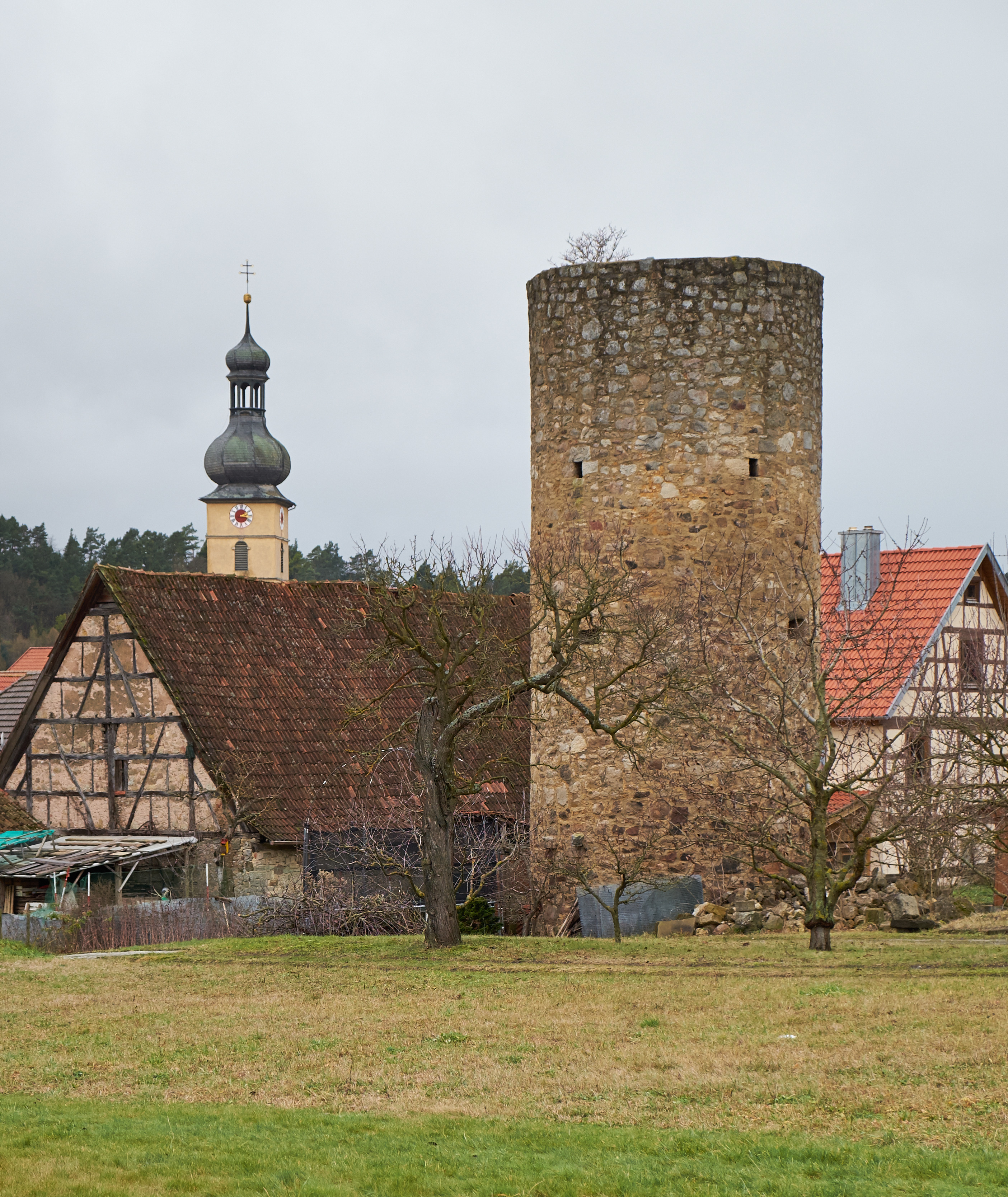 Remains of the fortification of Stockheim, Rhön-Grabfeld, Germany